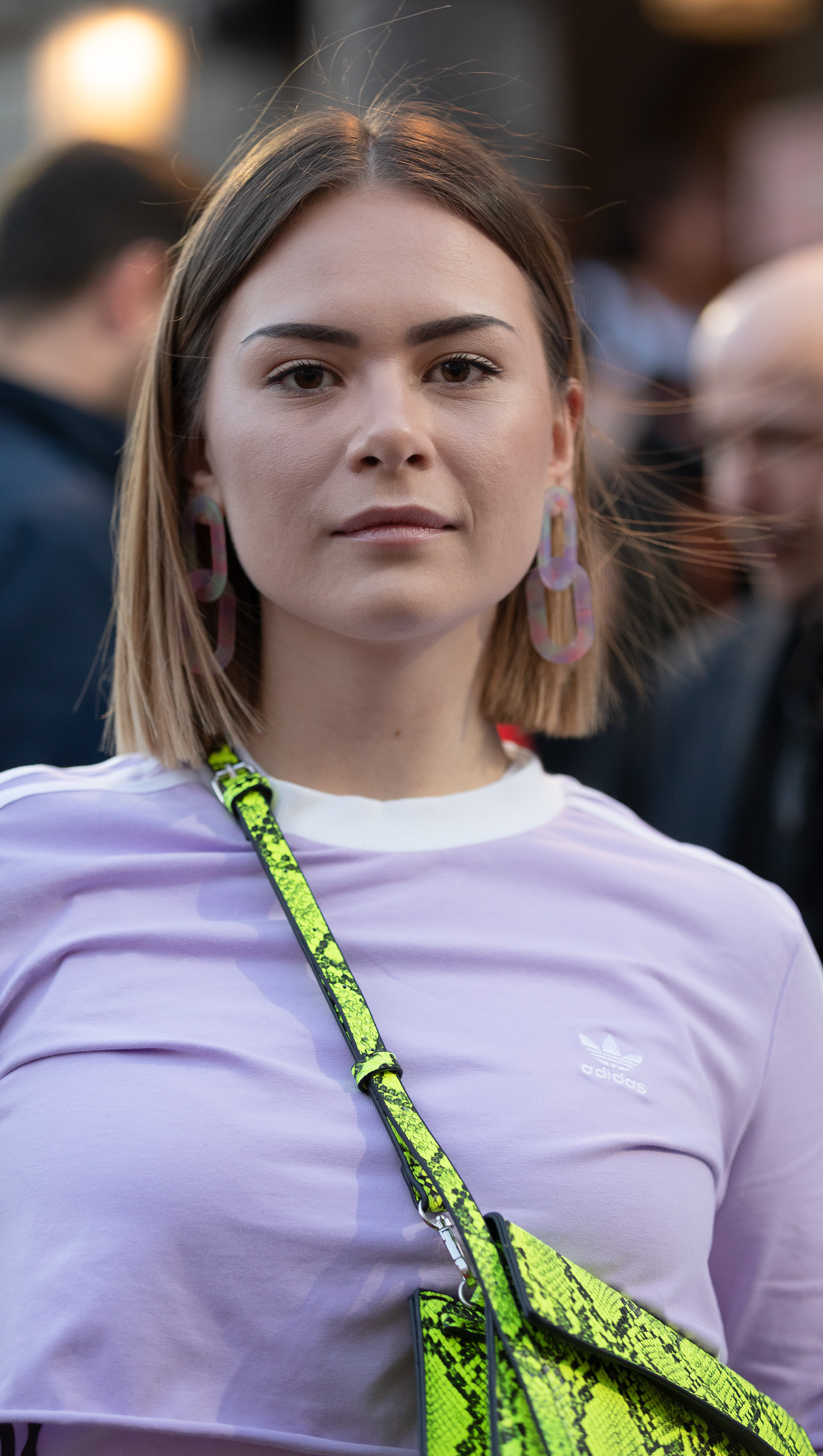 Mathea at the Amadeus Austrian Music Award 2019 at Volkstheater in Vienna.